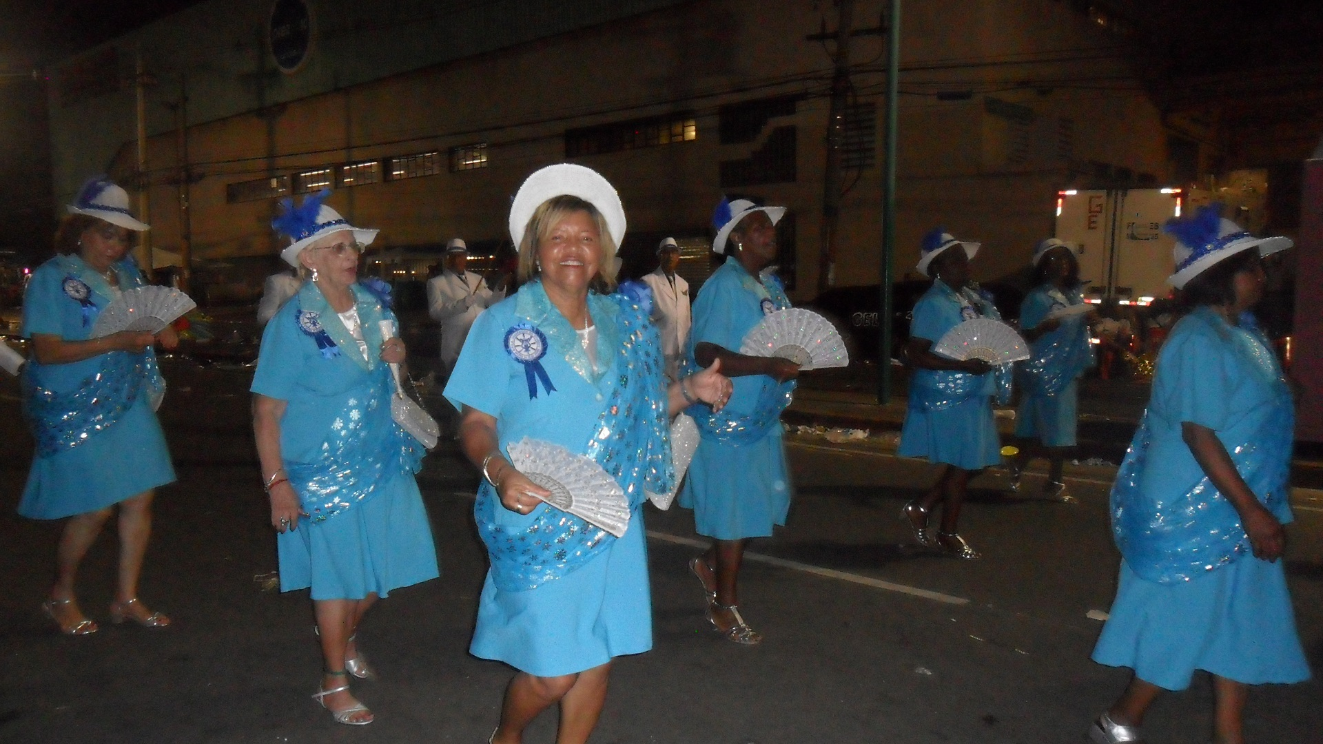 GRES Acadêmicos do Sossego